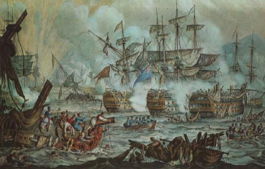 Naval battle of Navarino, 20.10.1827. The castastrophe of the Ottoman - Egyptian fleet (detail).